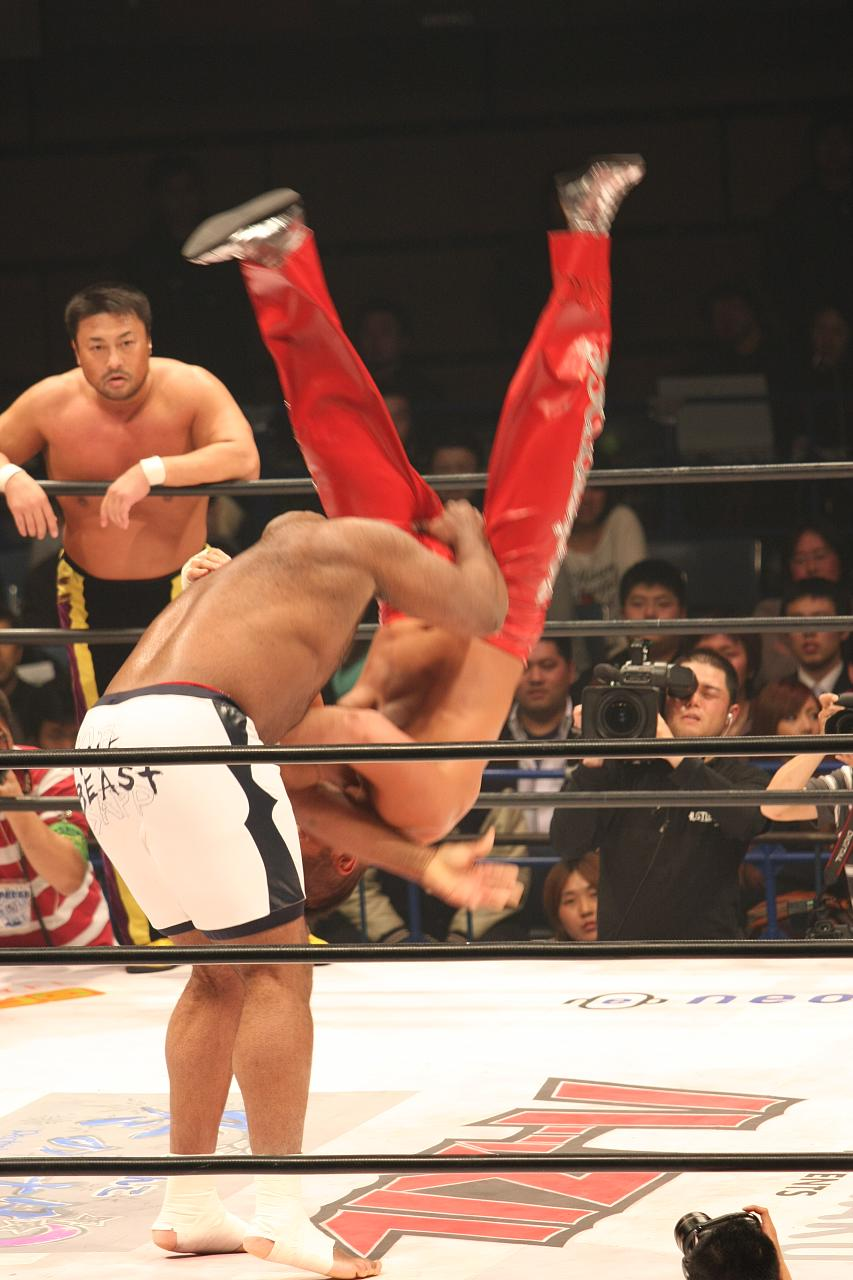 Sapp slamming down Wataru Sakata